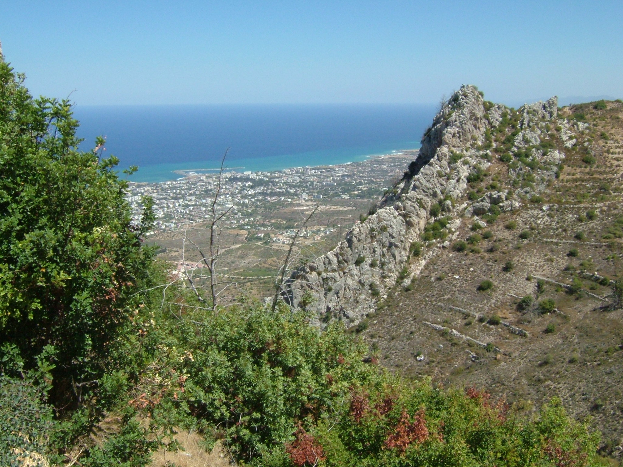 View of Kyrenia from St Hilarion